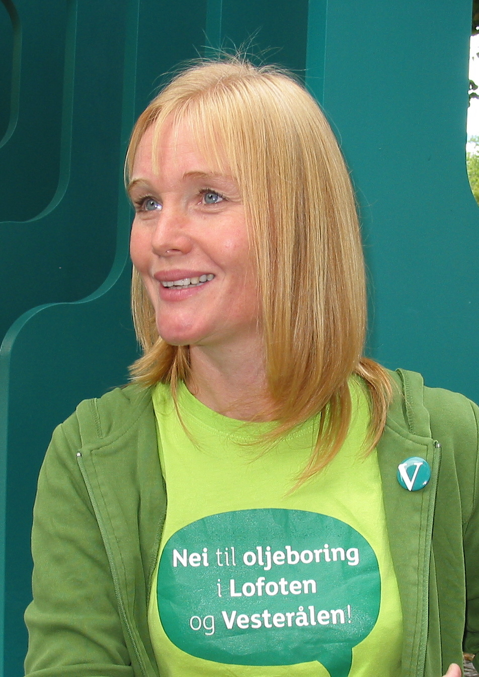 Alvhild Hedstein campaigning in Karl Johans gate, Oslo before the 2009 Norwegian election.